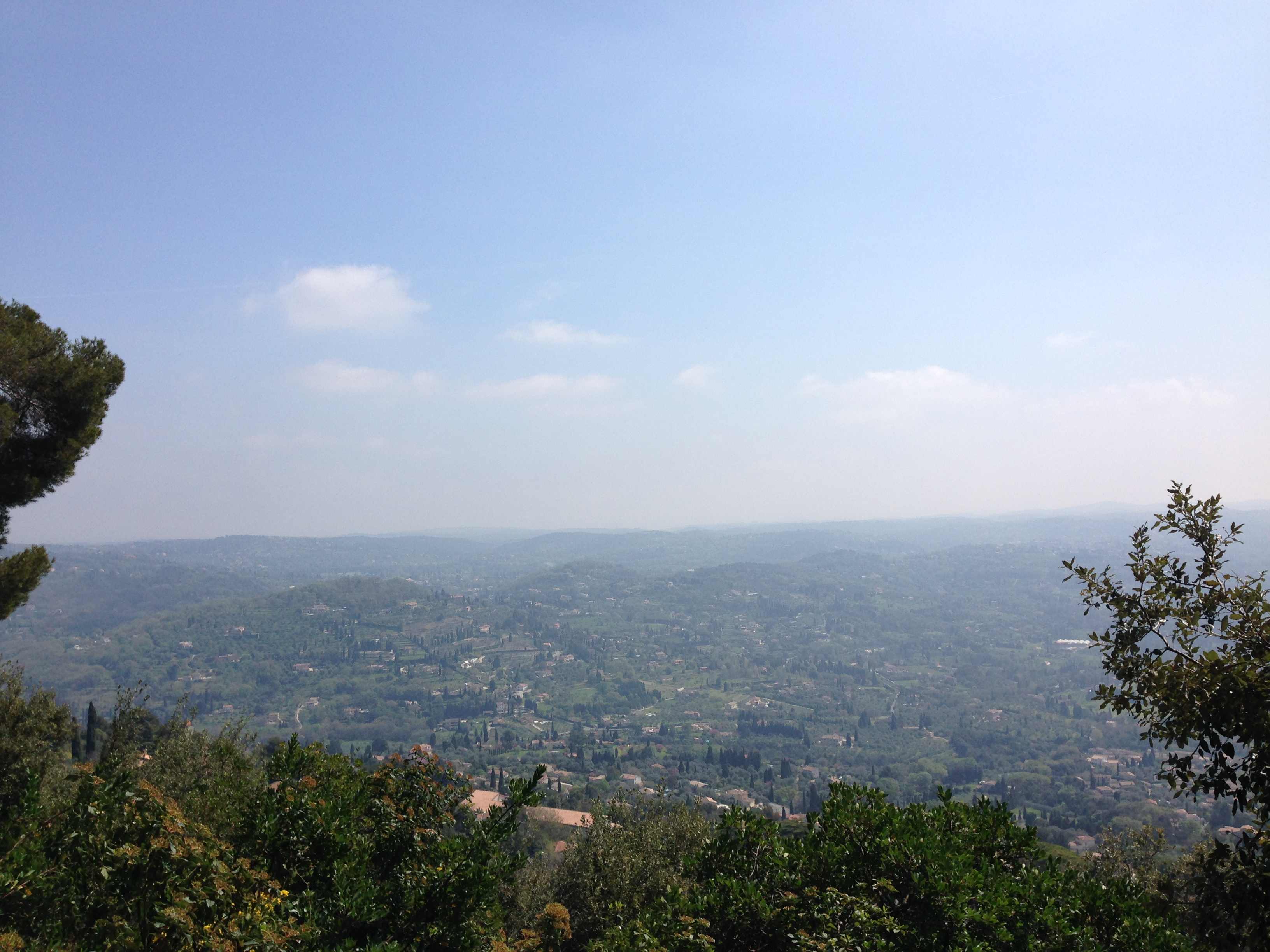 We see how Man has managed to encrust himself everywhere, reshaping all landscapes. View of Grasse and it's surroundings